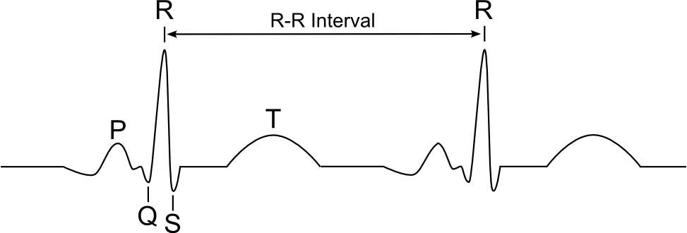 An idealised Lead I electrocardiogram (ECG) section of a healthy person, with labelled features P, Q, R, S, T and R-R interval.